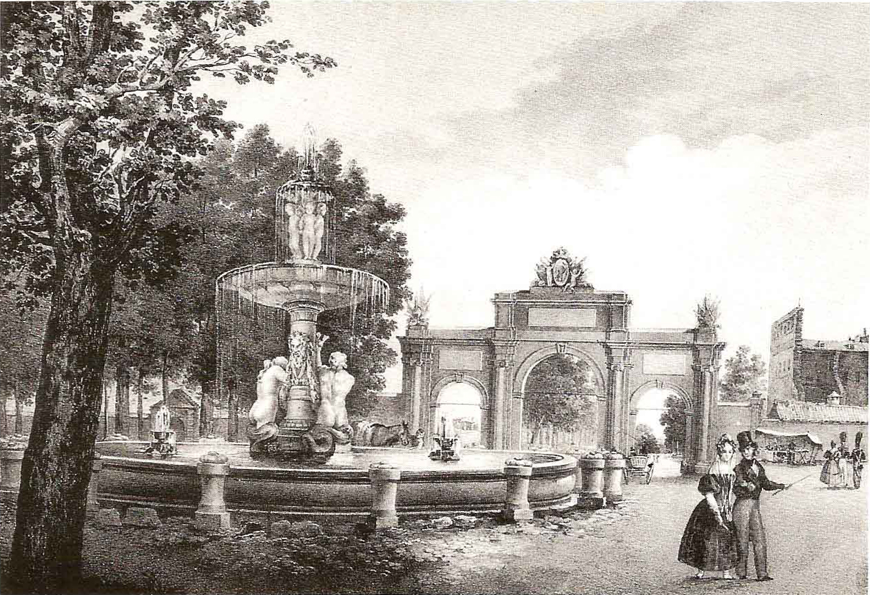 View of Puerta de Atocha with the fountain situated in the nearby at Paseo del Prado. Engraving by Vicente Camarón.